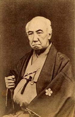 Maeda Nariyasu, lord of the Kaga domain (Japan) 加賀藩主前田斉泰